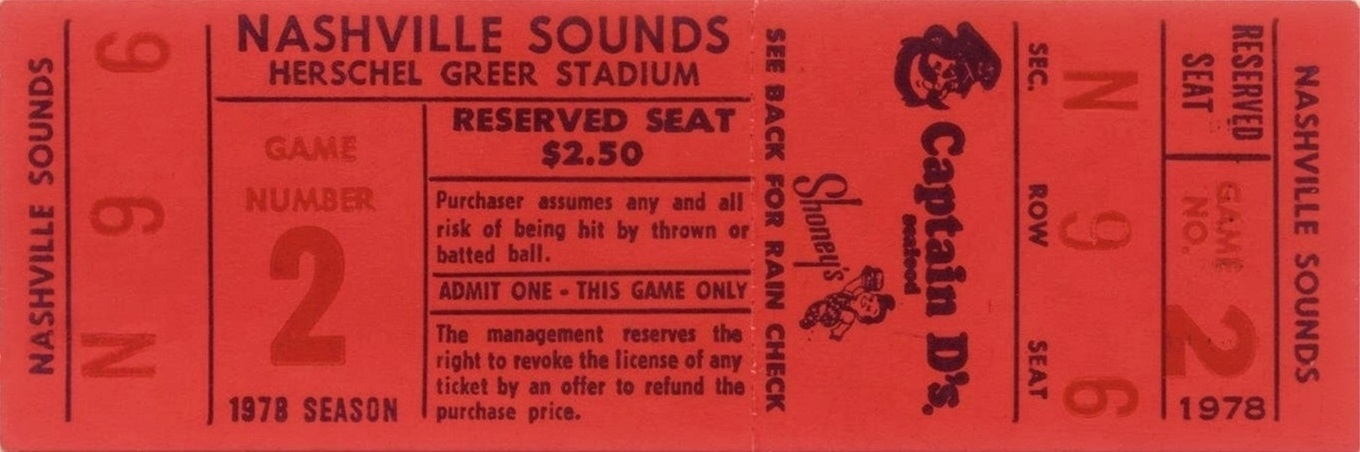 A ticket for an April 26, 1978, Nashville Sounds game against the Savannah Braves at Herschel Greer Stadium. This was the inaugural home opener for the Sounds.